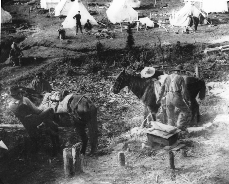 Photograph, glass lantern slide, Loading gold on pack horses, Bonanza, YT, 1898, Edwin Tappan Adney, Silver salts on glass - Gelatin dry plate process - 8 x 8 cm